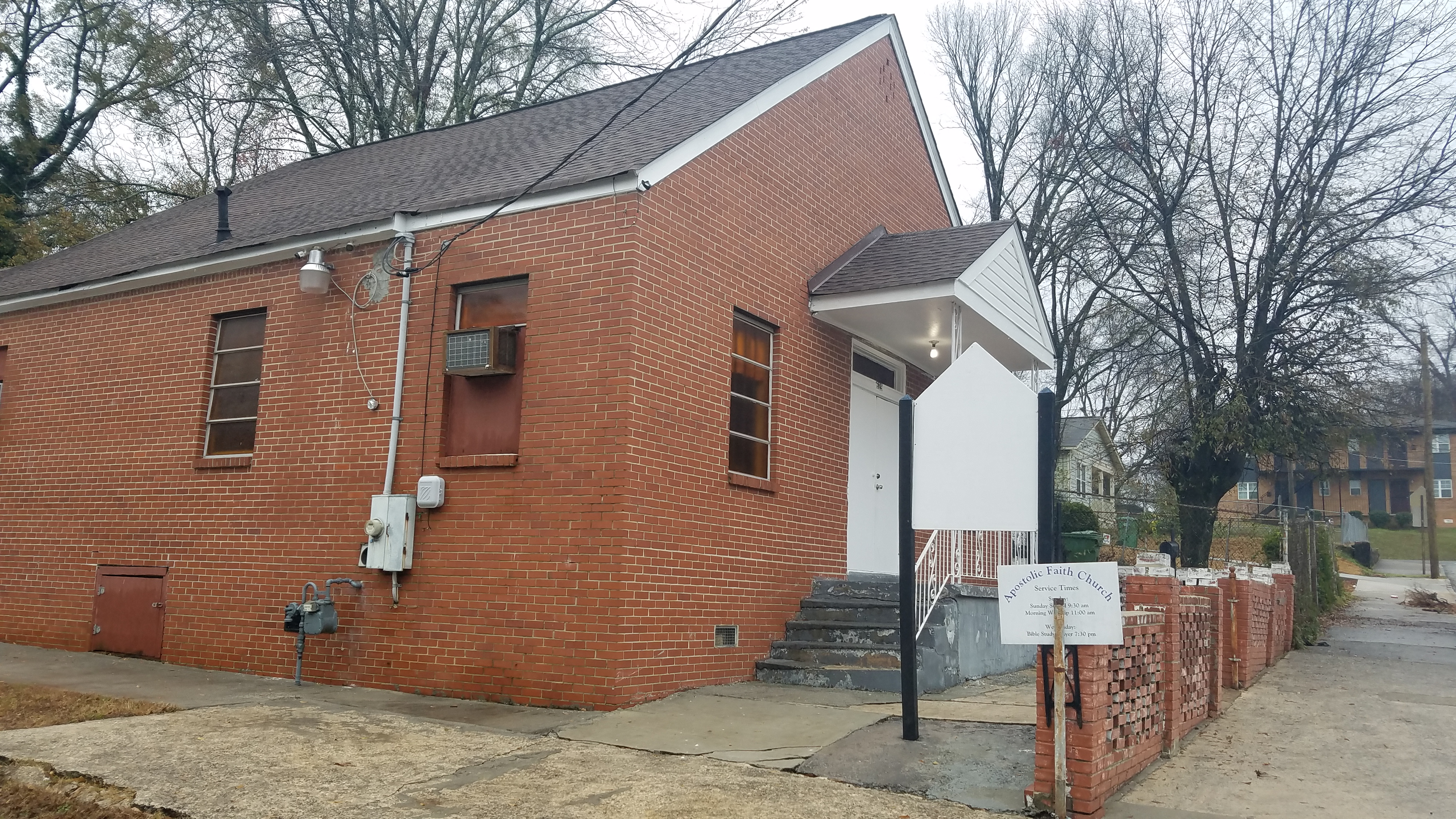 Apostolic Faith Church in Atlanta, Georgia.